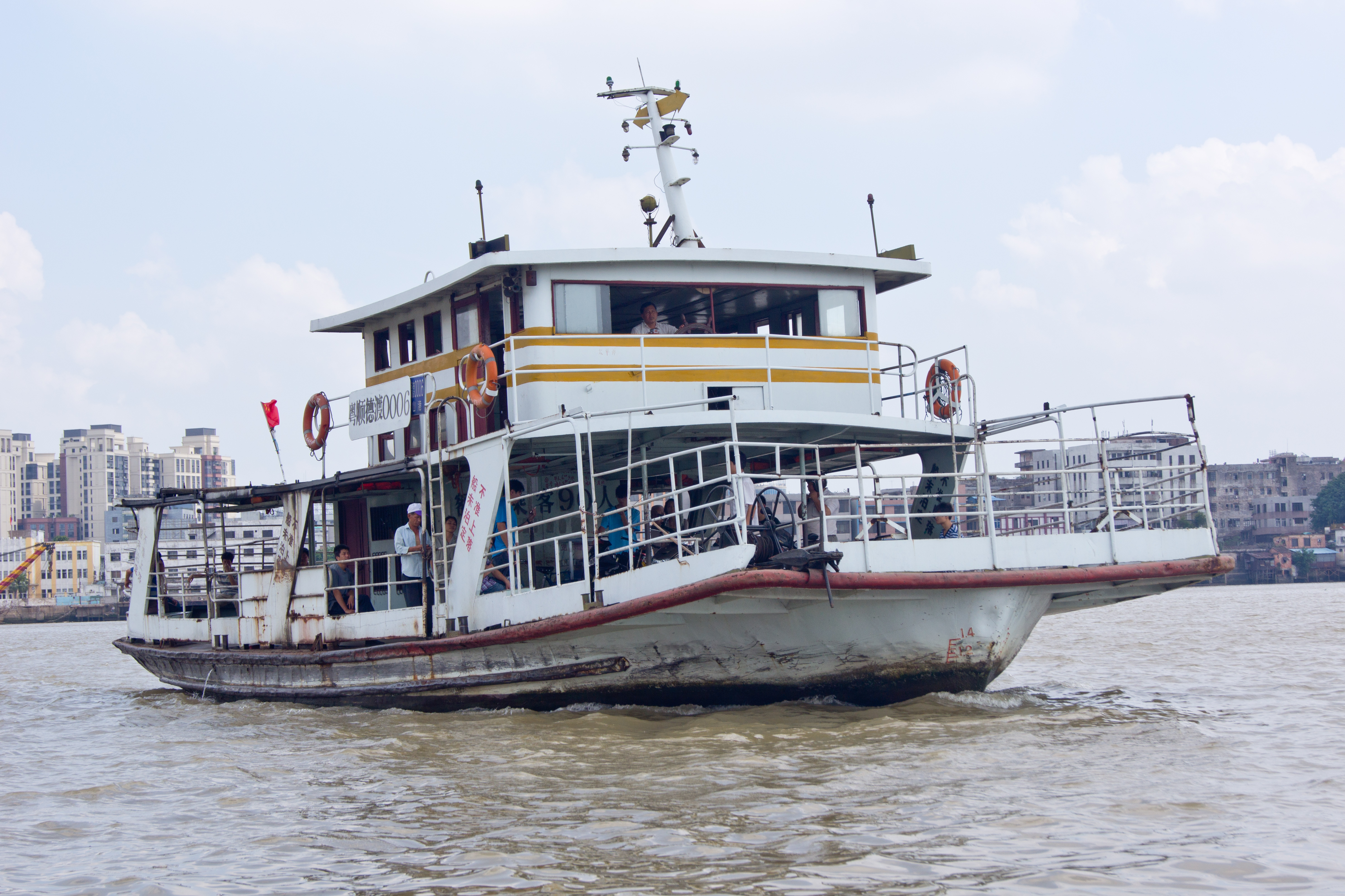 Yue Shunde Ferry #0006